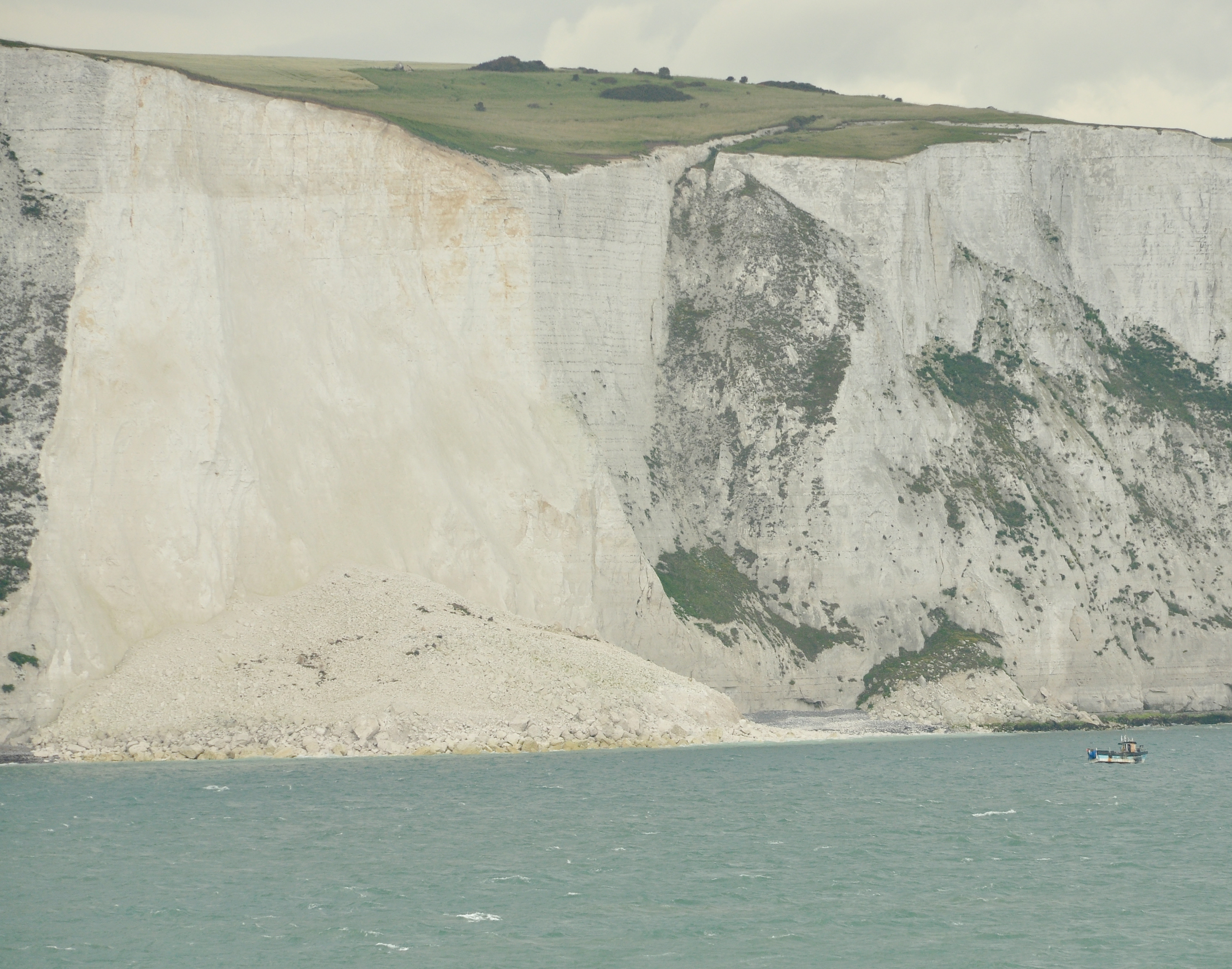 A recent landslide in the White Cliffs of Dover, to the east of the harbour.